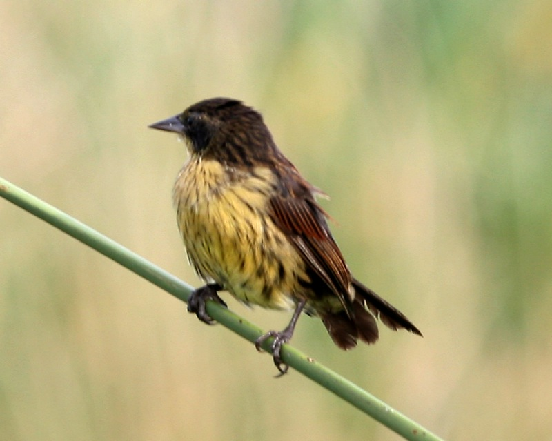 Unicoloured Blackbird (Agelasticus cyanopus) at Ibera Marshes, Argentina. Alt. Names: Unicolored Blackbird, Unicolored Marsh-Blackbird, Unicoloured Blackbird, Unicoloured Marsh-Blackbird Spanish (Argentine): Varillero negro Portuguese (Brazil): Carretão, dorémi-preto